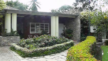 The house the Mirabal sisters lived in for the last 10 months of their lives. Now a museum. Salcedo, Dominican Republic.